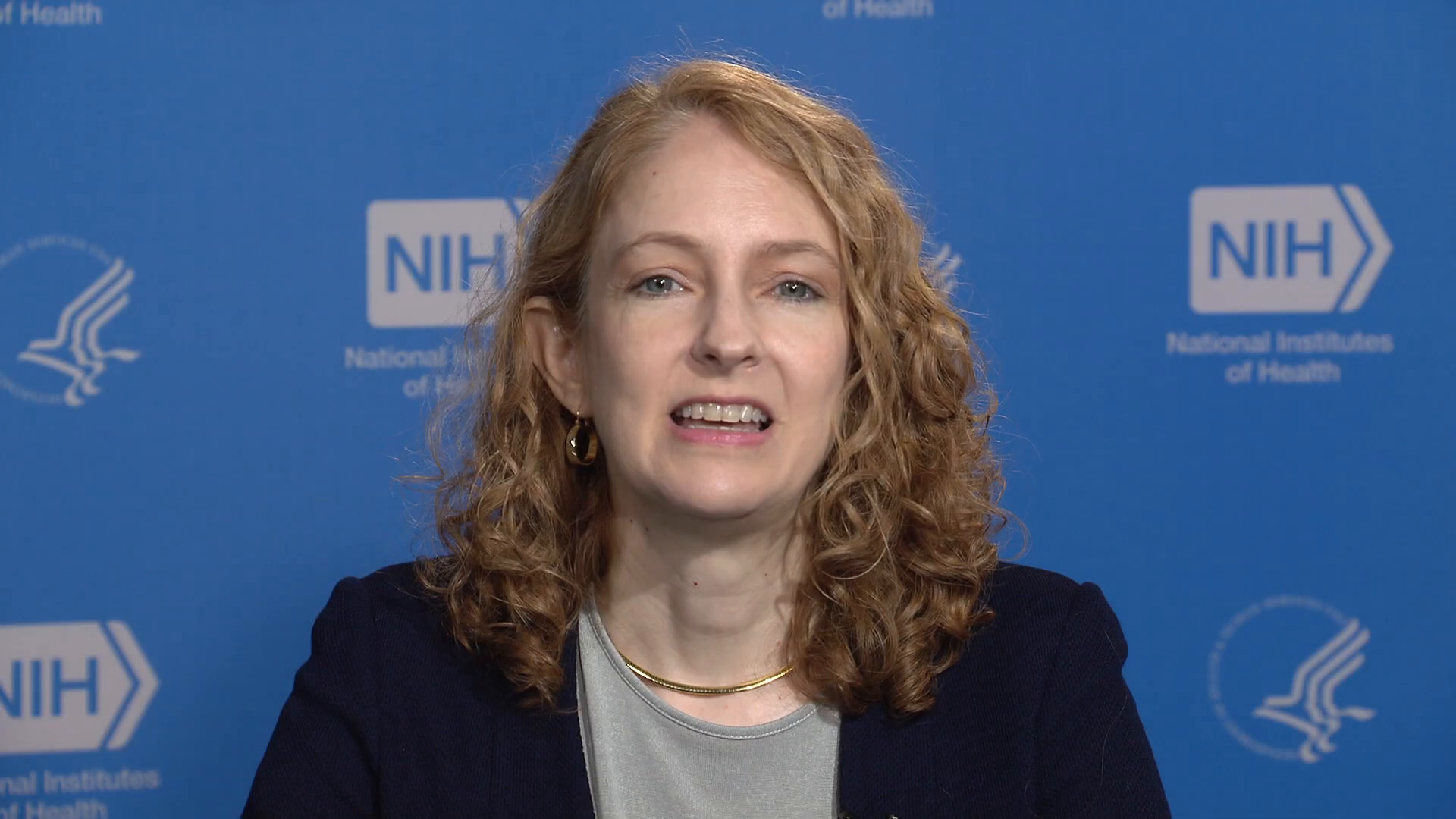 Sarah H. Lisanby introducing an NIH training video about transcranial magnetic stimulation